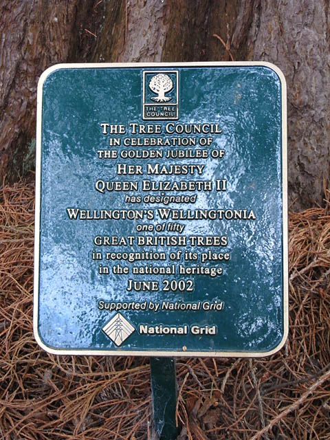 Sign beneath "Wellington's Wellingtonia", Stratfield Saye. See 1420440 and 1422804 for pictures of the tree. See List_of_Great_British_Trees for a list of the 5o trees.